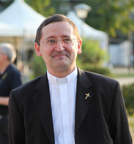 Cristiano Bodo.